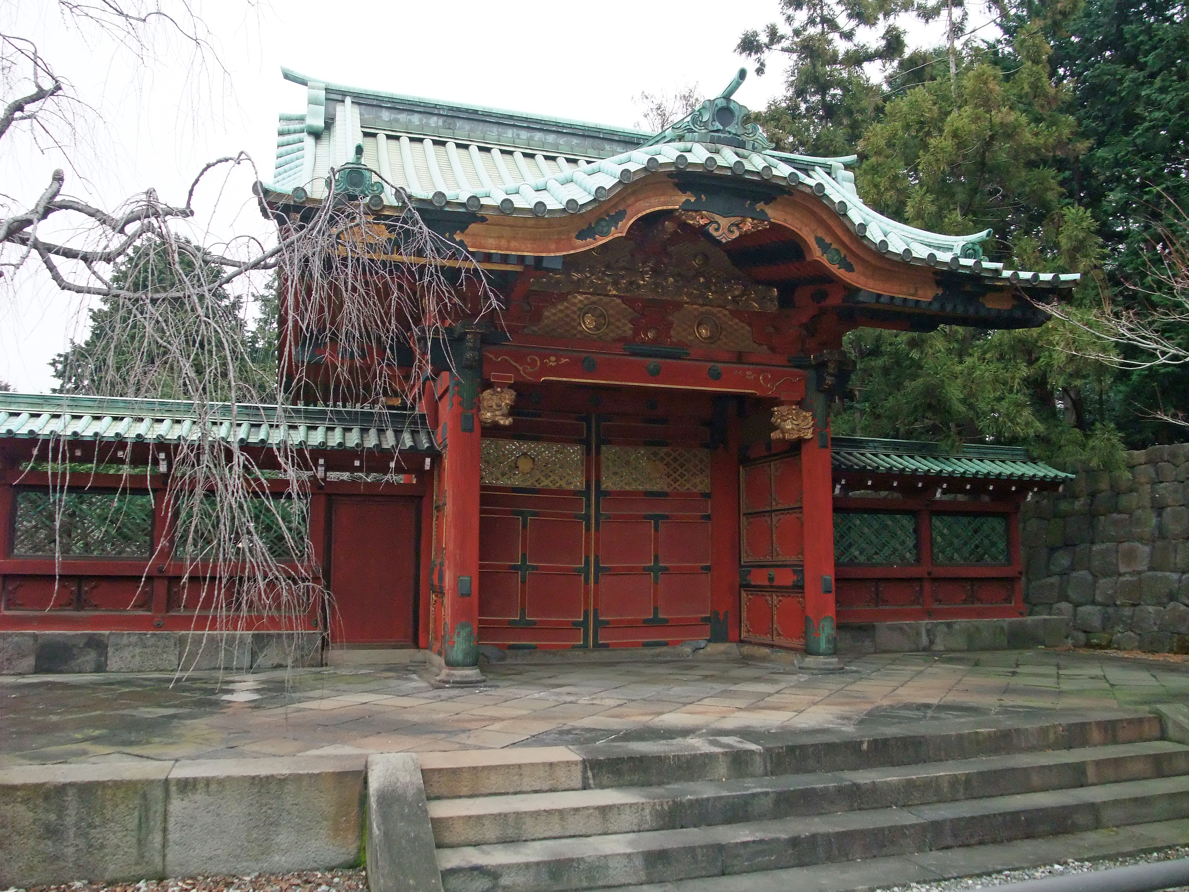 Chokugaku-mon (Gate with an imperial inscription), Mausoleum of Joken'in (Tokugawa Tsunayoshi) (Japan's national important cultural property) Kan'ei-ji temple, Taito-ku, Tokyo, Japan